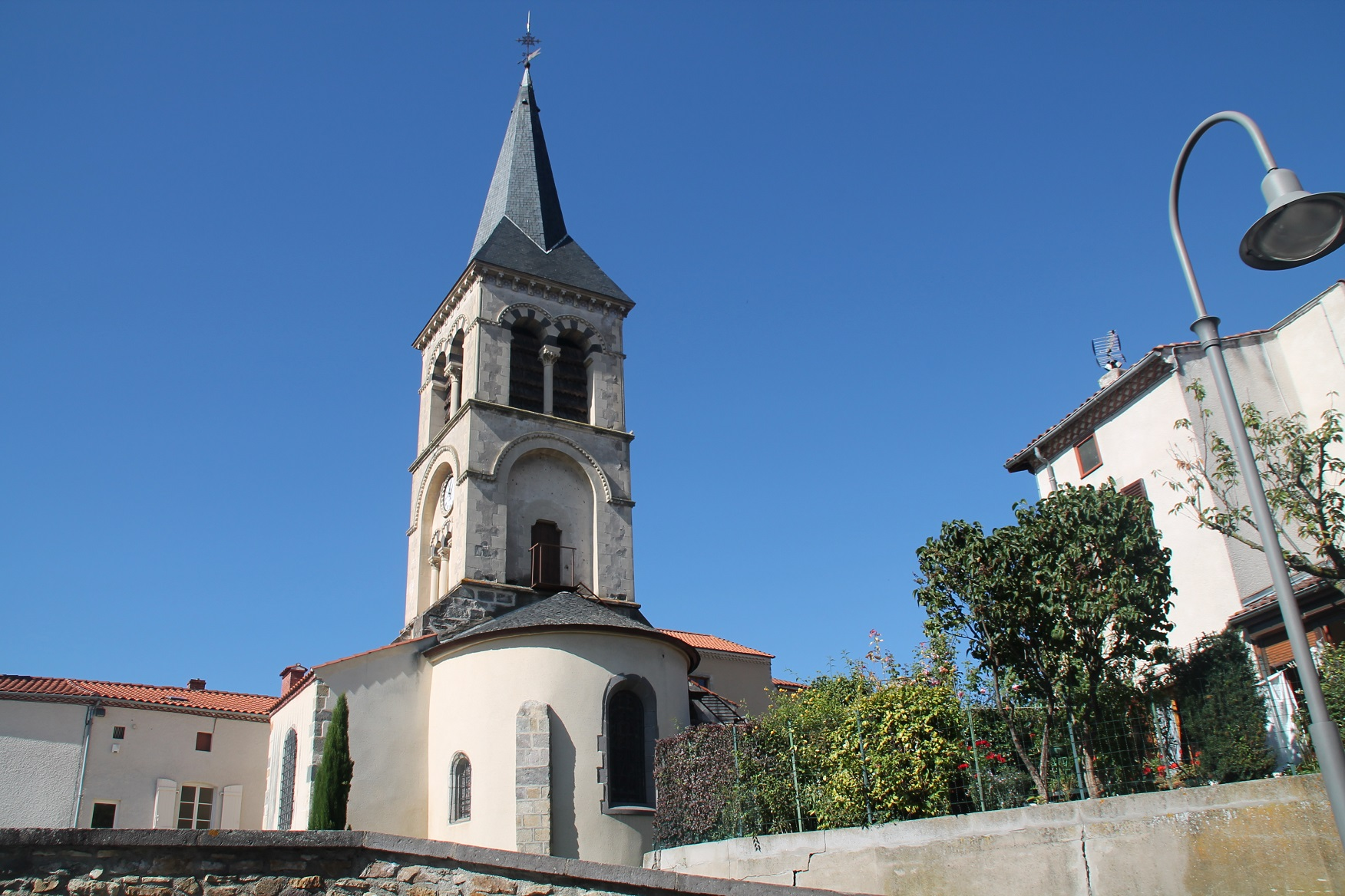 L'église